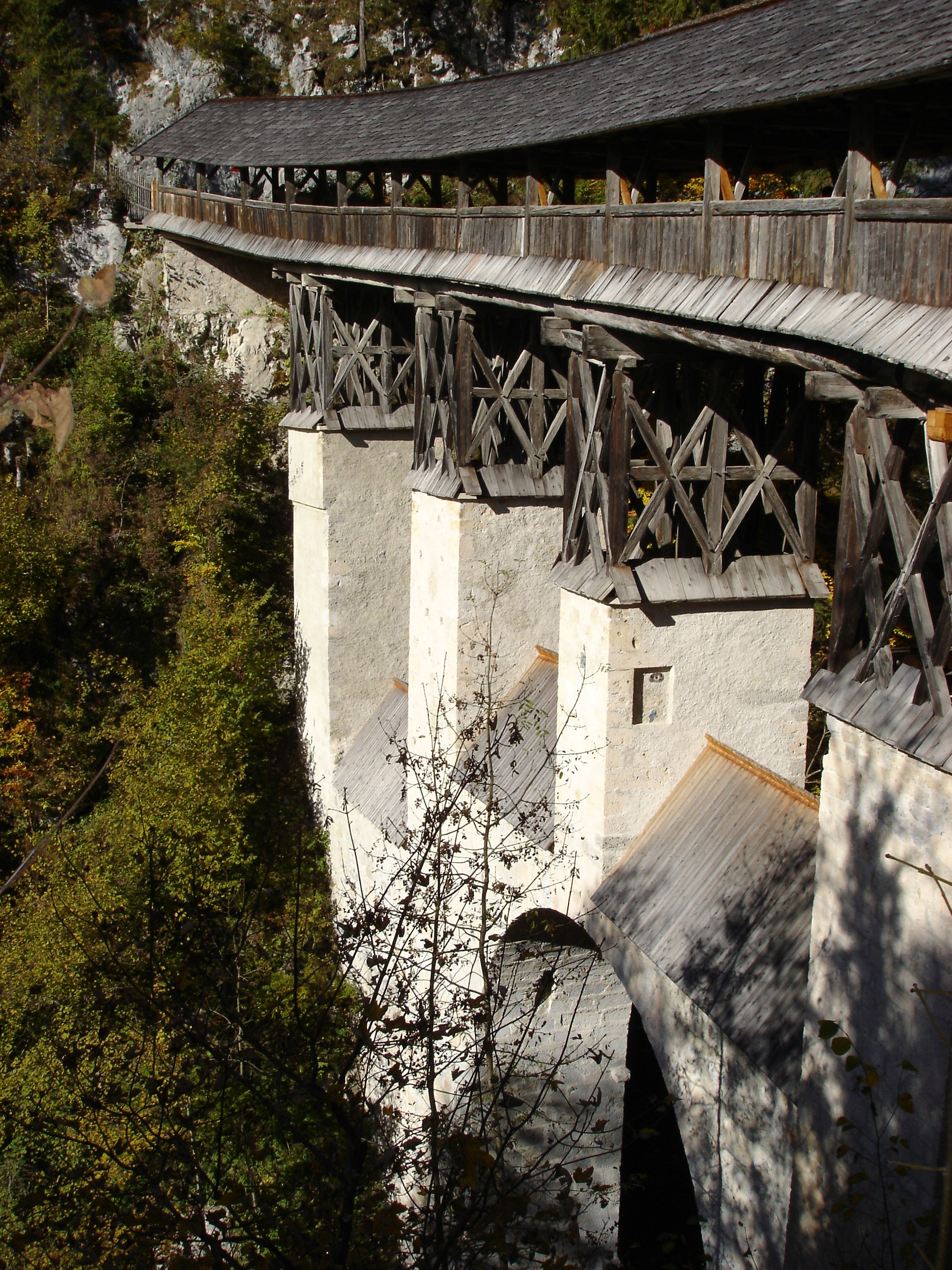 The Hohe Brücke in the Stallental, Karwendel near Georgenberg